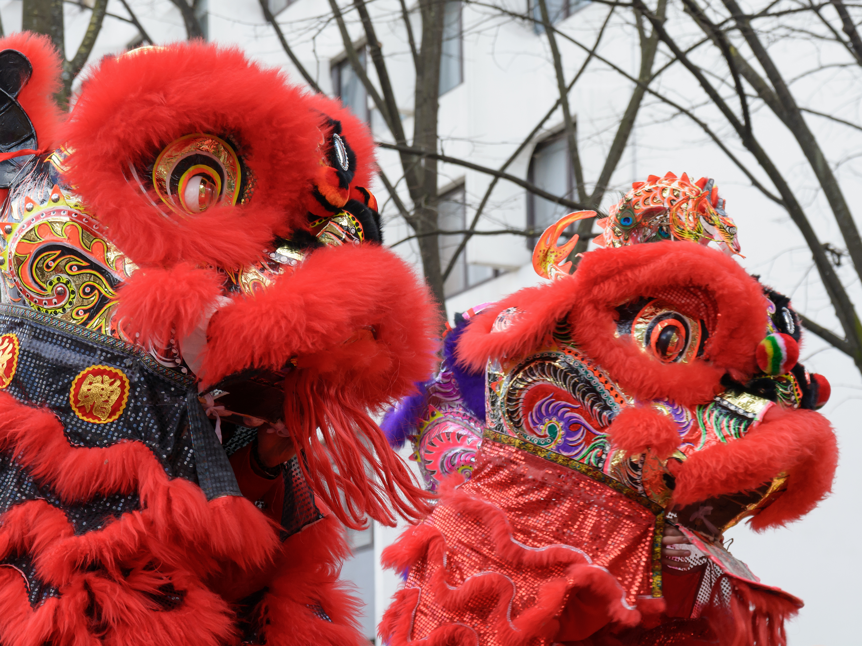 Lion dance during Chinese New Year 2015 in the 13th arrondissement of Paris